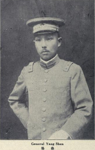 Yang Sen (1884 - 1977)